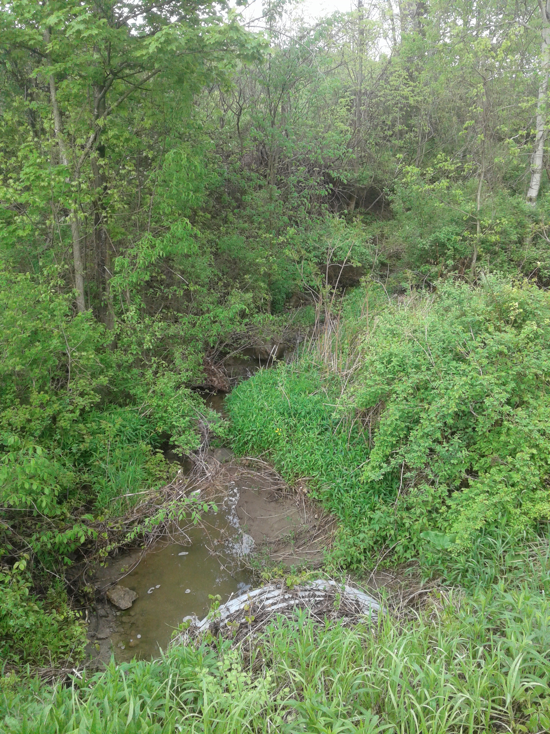 Bowmans Creek north of Starkville Road, near the source. In the town of Minden, New York